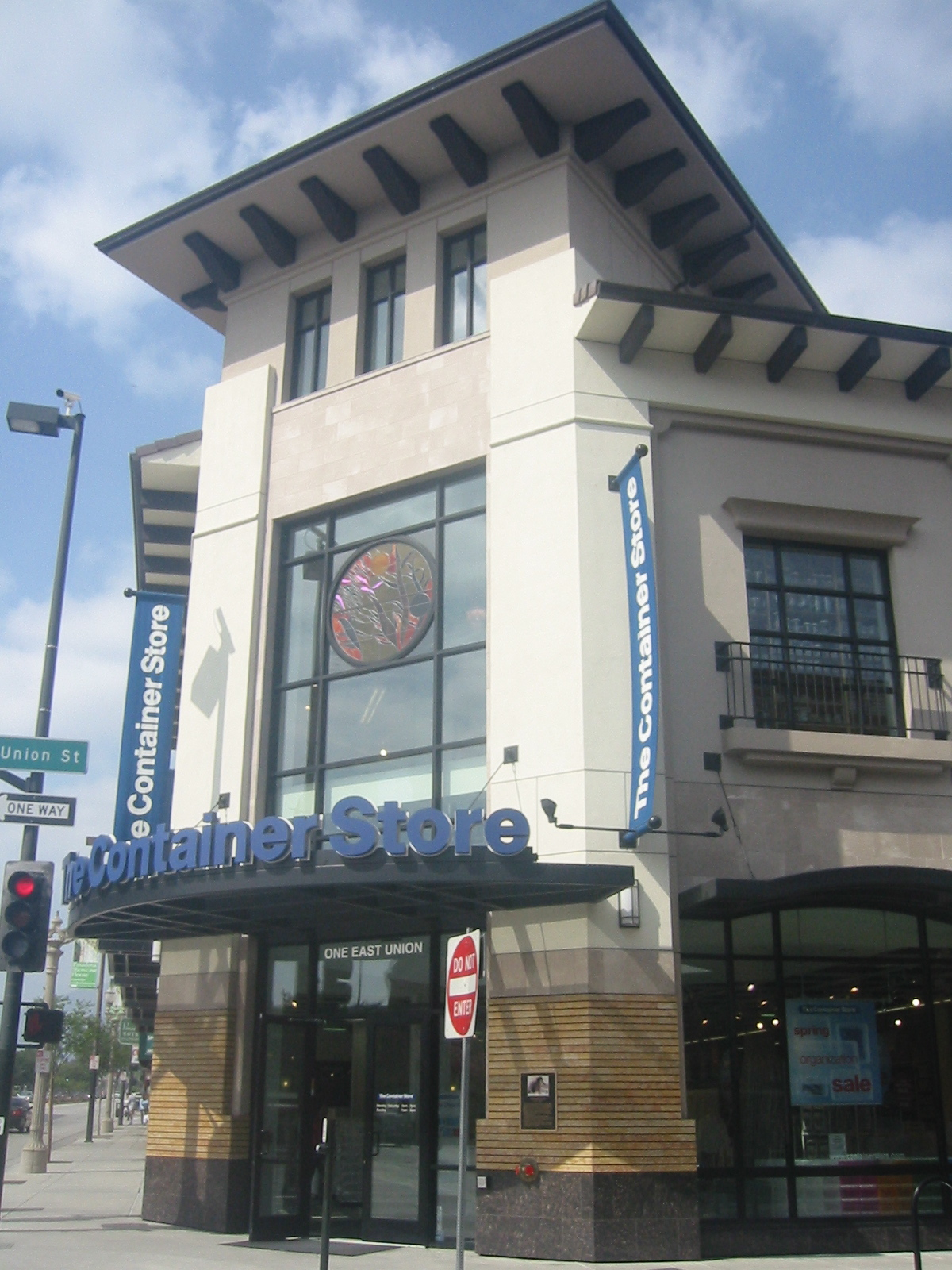 Container Store in Pasadena, California